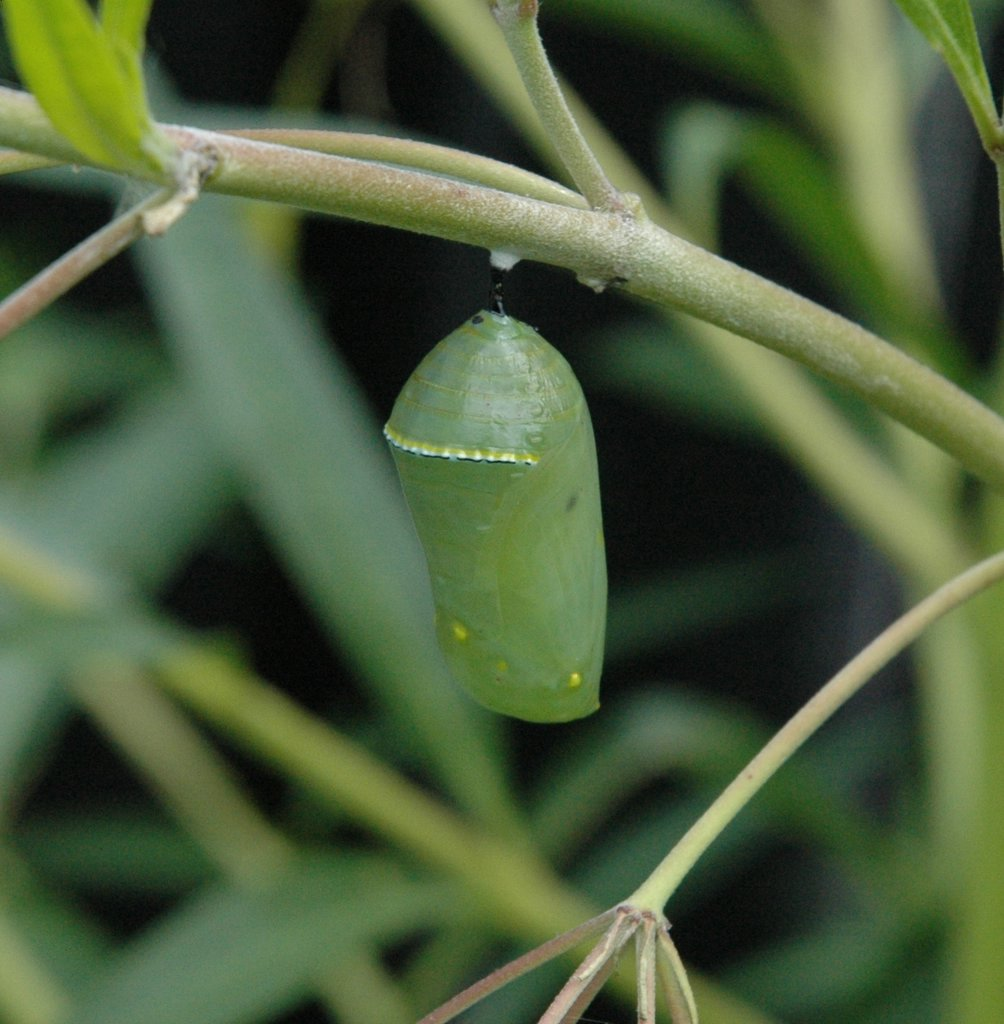 Monarch Butterfly Chrysalis